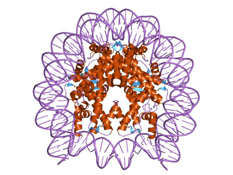 Cartoon representation of the molecular structure of protein registered with 1u35 code.